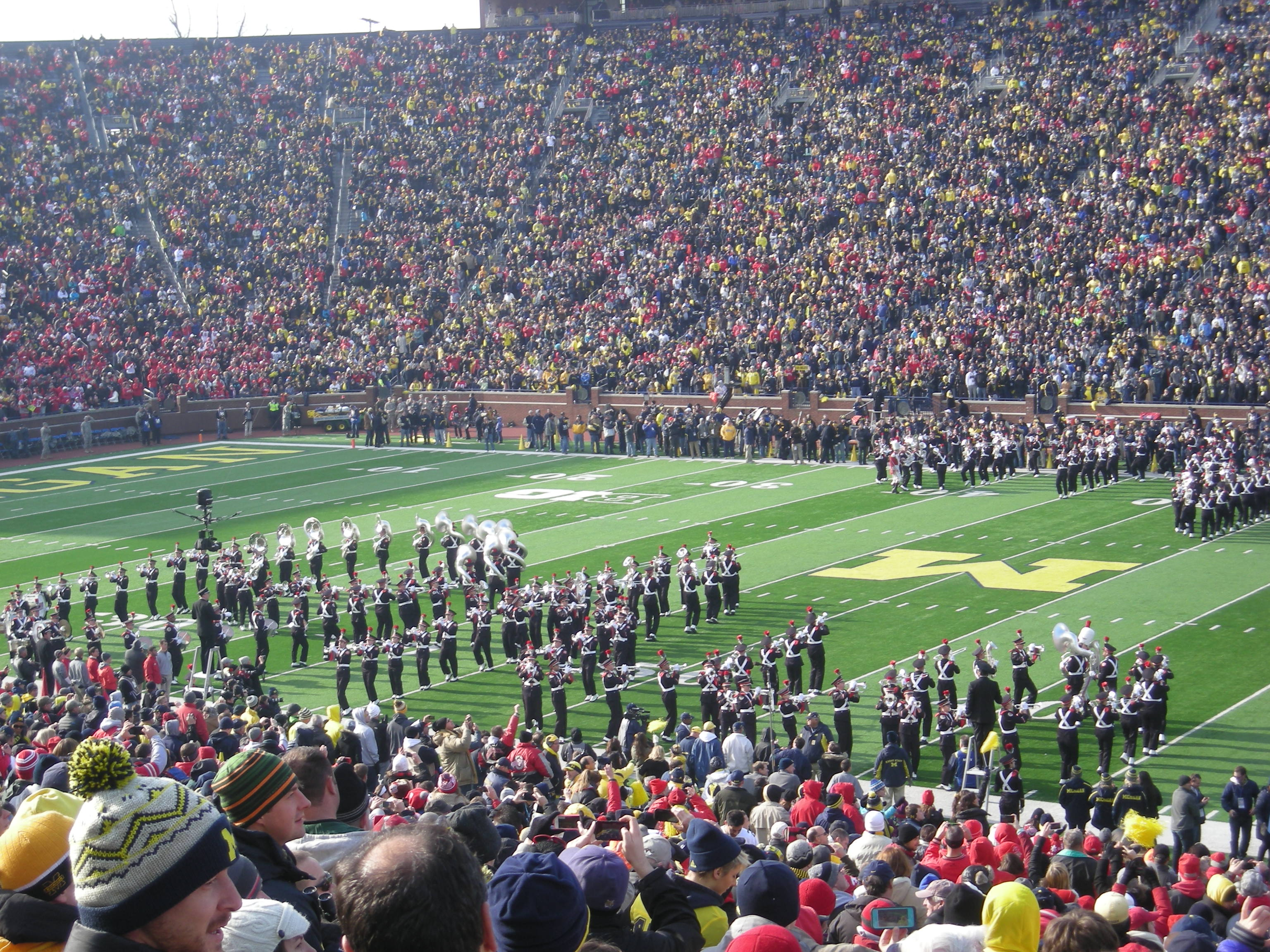 The Ohio State University Marching Band performing before the Ohio State Buckeyes vs. Michigan Wolverines football game at Michigan Stadium in Ann Arbor, Michigan (United States). Ohio State won 42–41.